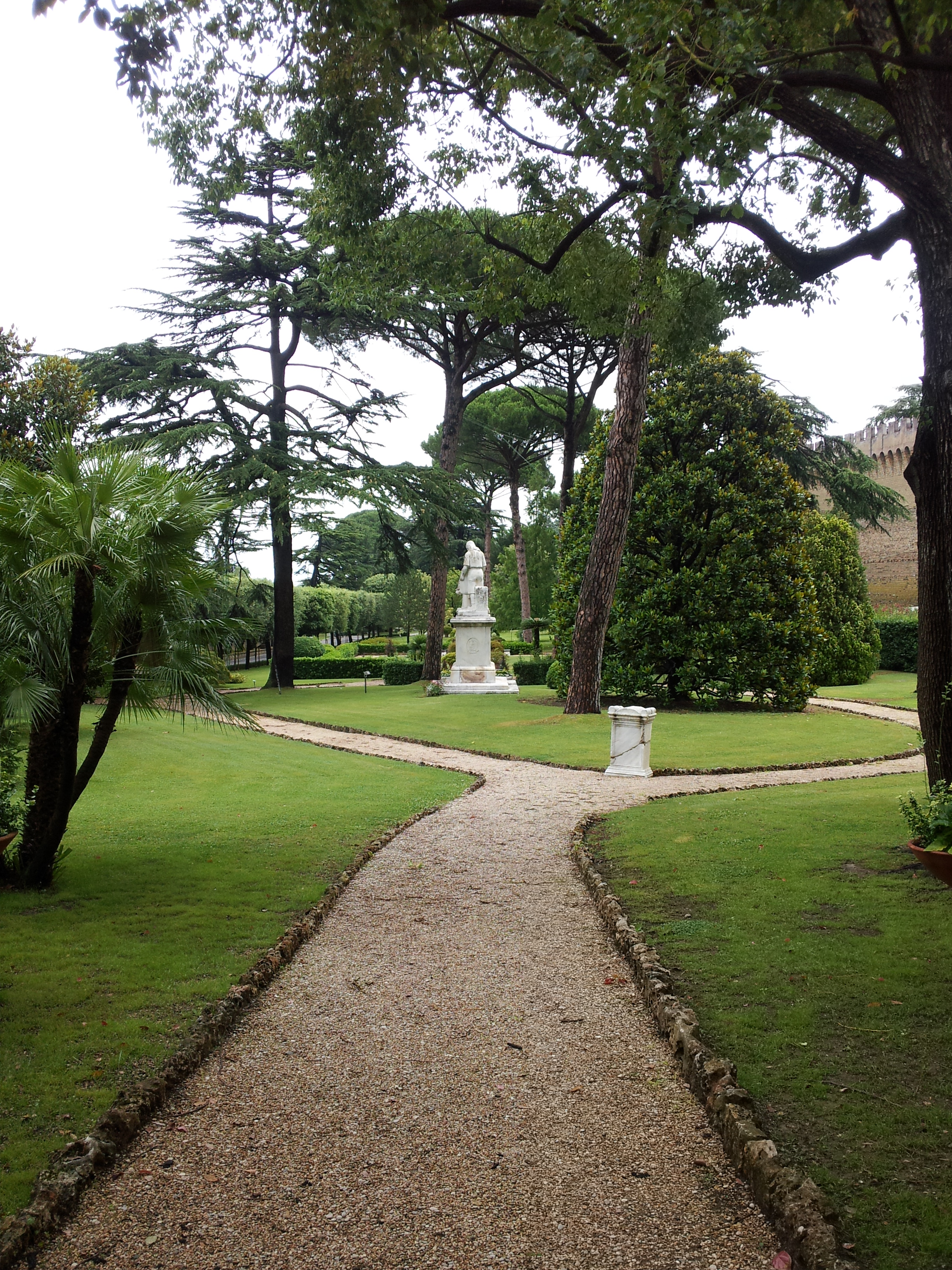 View at the Giardino americano (American garden) section of the Vatican Gardens.